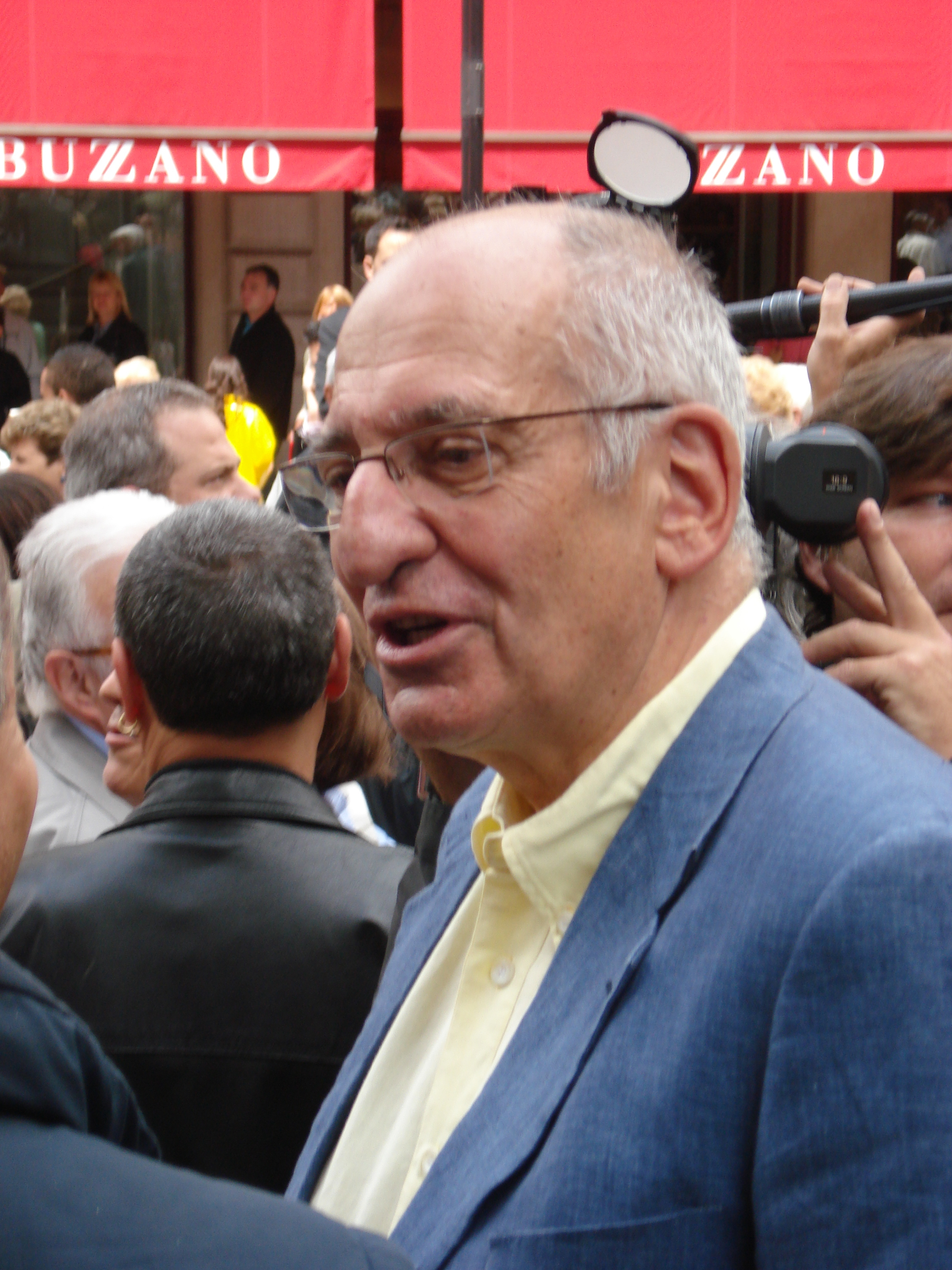 Pascal Couchepin, member of the Swiss Federal Council, in Geneva, Switzerland.